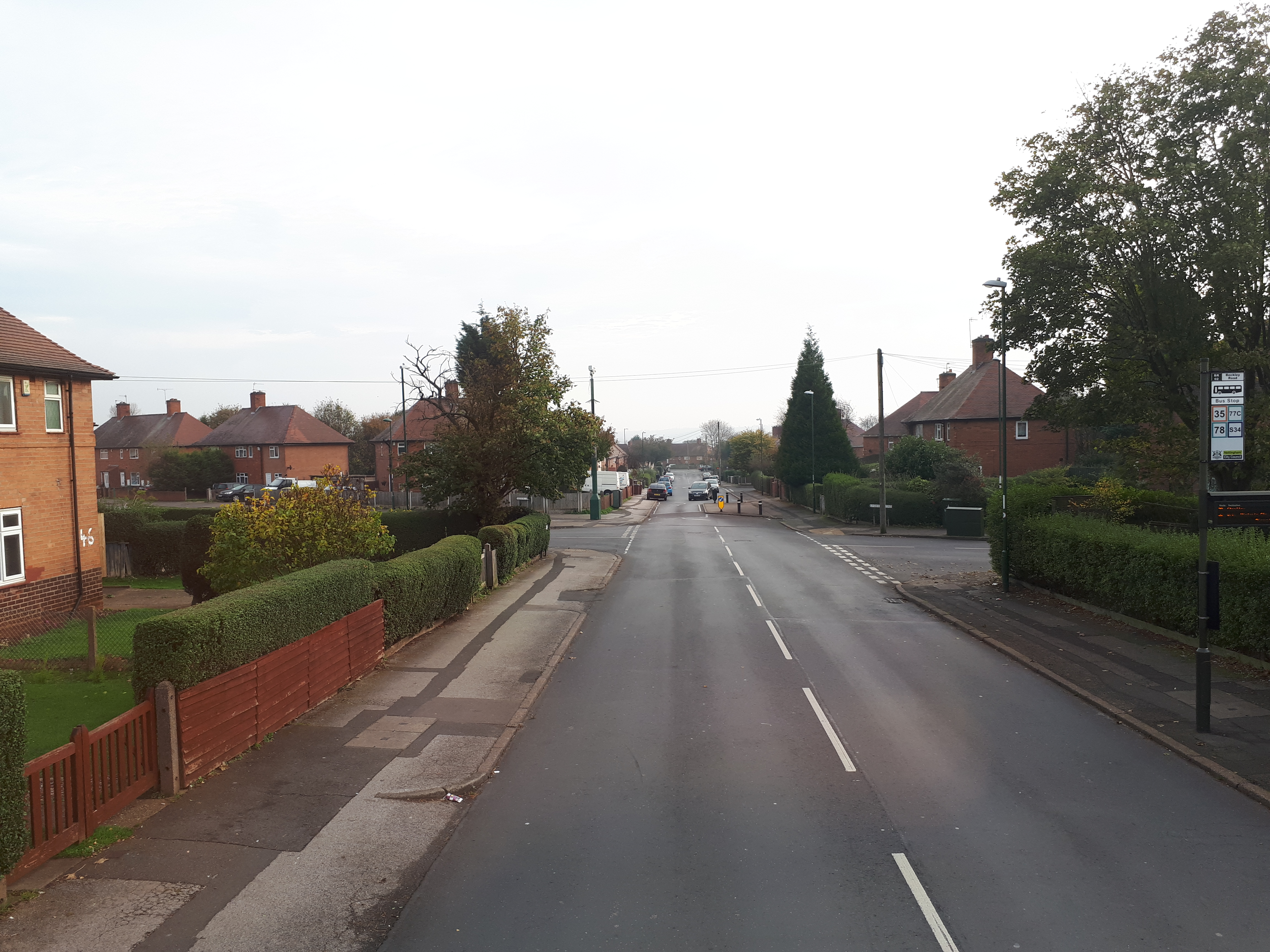 View of Coleby Road in the Broxtowe Estate by the Beckley Road bus stop. Taken from the upper deck of the Orange Line 35 bus en route to Bulwell.